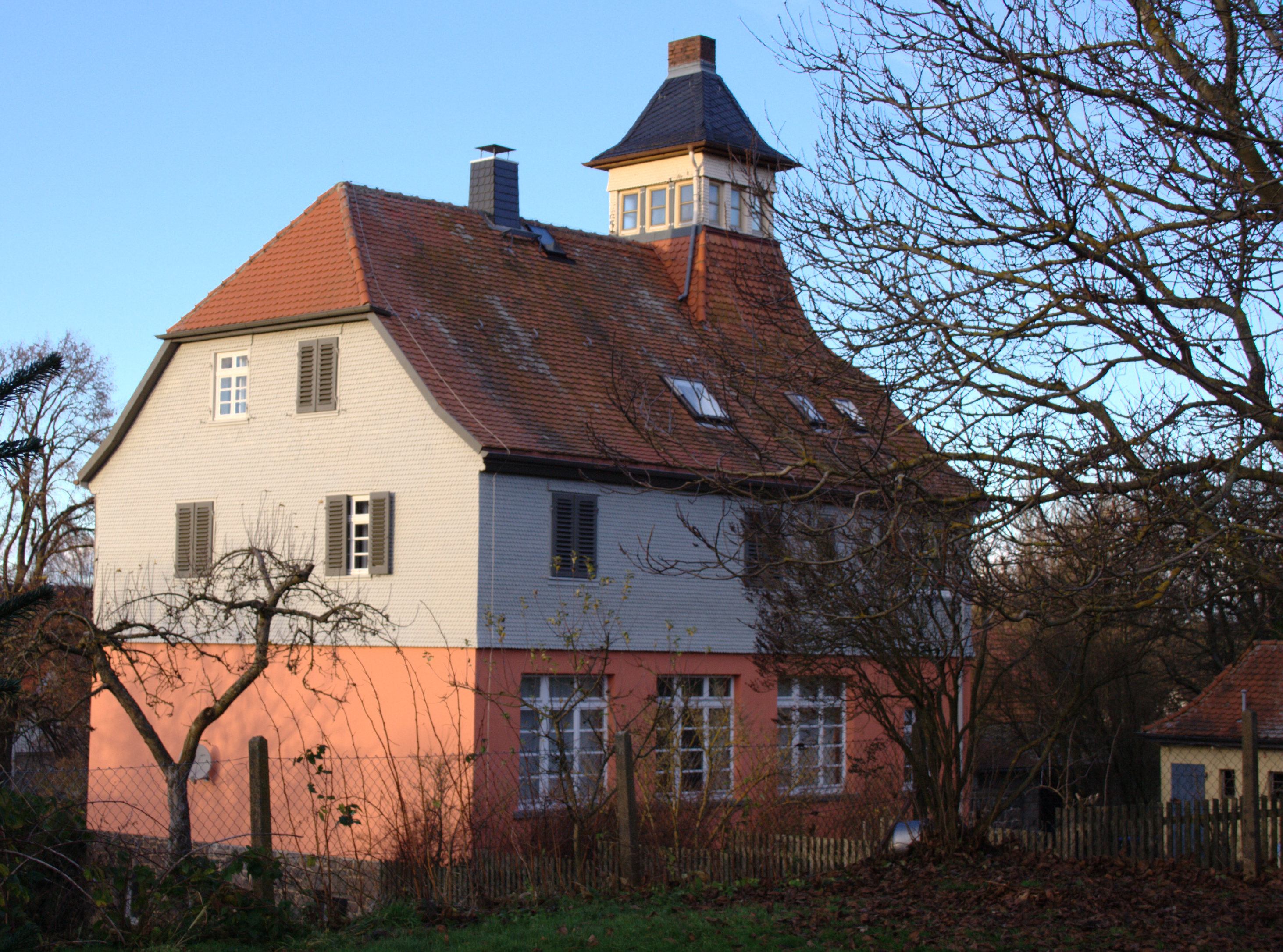 Former School Building in Eichenrod Herbsteiner Weg 11, Lautertal, Hesse, Germany